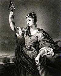 Anna Dawson - wife of Earl of Dartrey died on 1 March 1769 and was buried at Kilcrow, the parish church of Ematris, built within the Dawson Grove demesne by Alderman Richard Dawson in 1729.